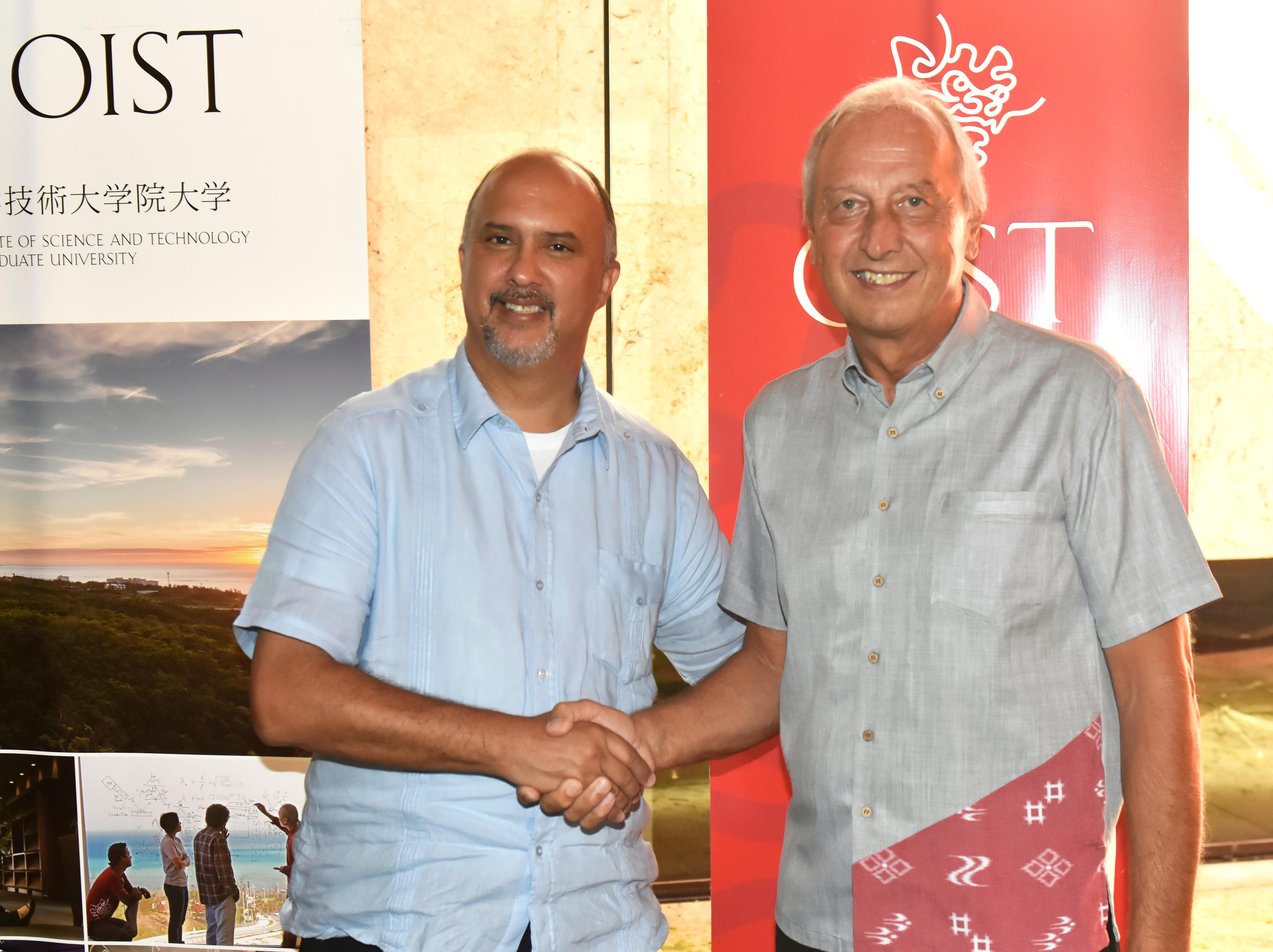 The Ambassador Extraordinary and Plenipotentiary of the Republic of Cuba, Mr. Carlos Miguel Pereira Hernández, visited OIST. He met with OIST CEO and President Peter Gruss and went on a tour of campus | キューバ共和国特命全権大使訪問 | キューバ共和国特命全権大使がOISTを訪問されました